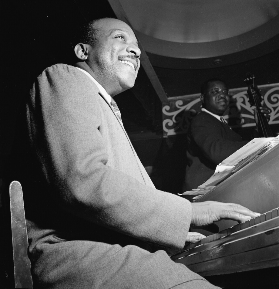 Portrait of Count Basie, Aquarium, New York, N.Y.